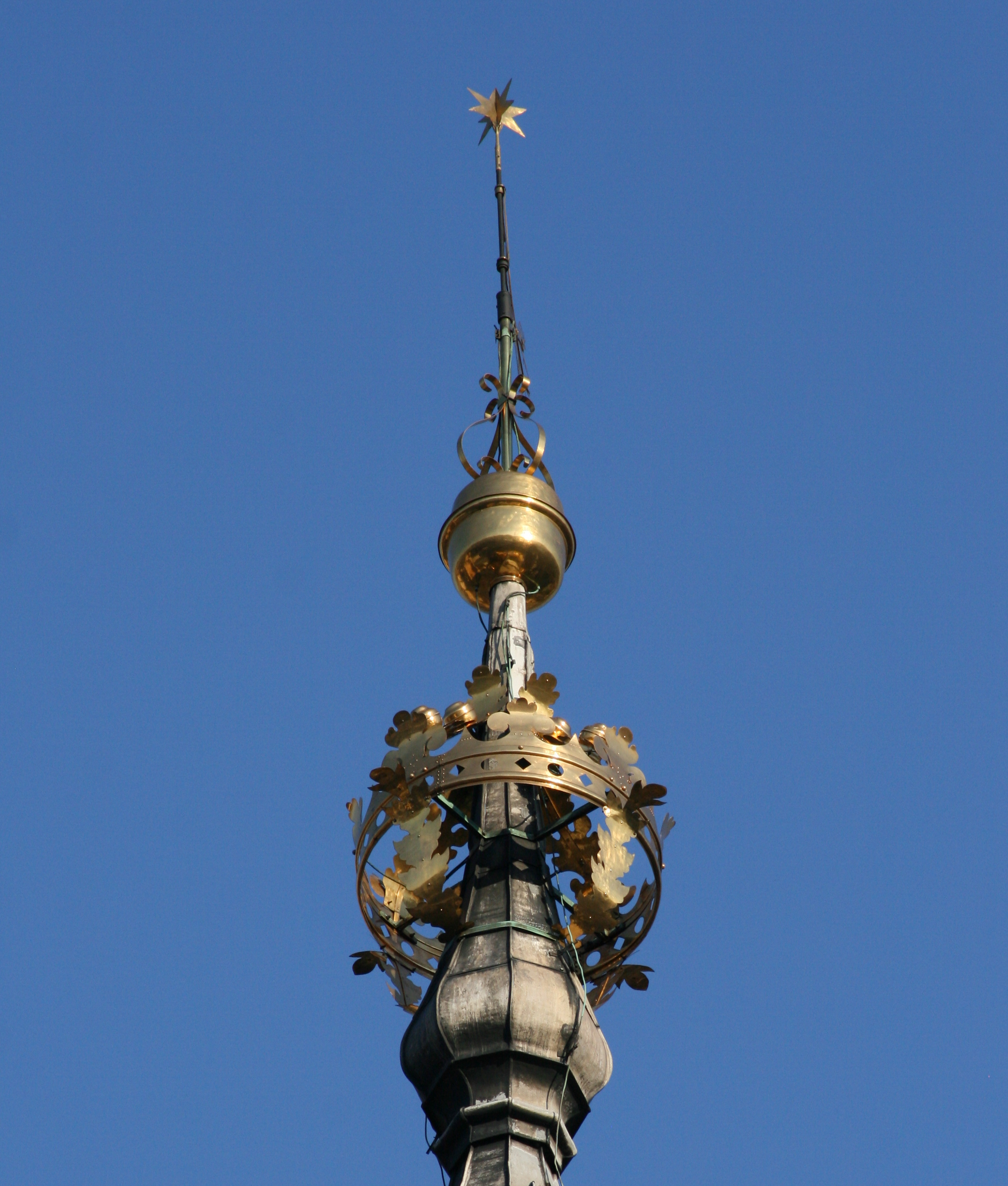 Town Hall Tower, Main Market Square, Krakow, Poland